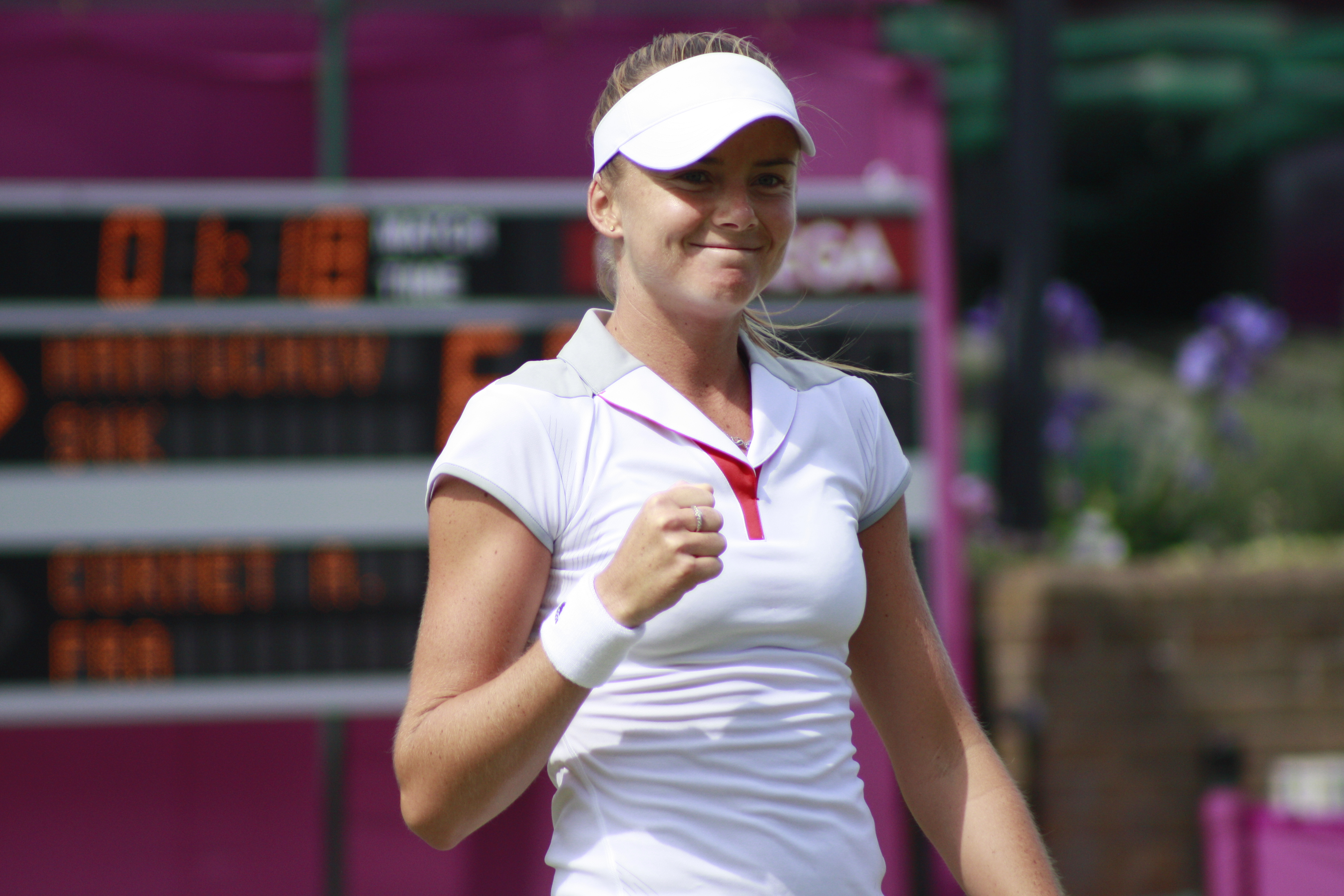 Daniela Hantuchová at the end of her match against Alizé Cornet at the London Olympiads in 2012 (at Wimbledon).